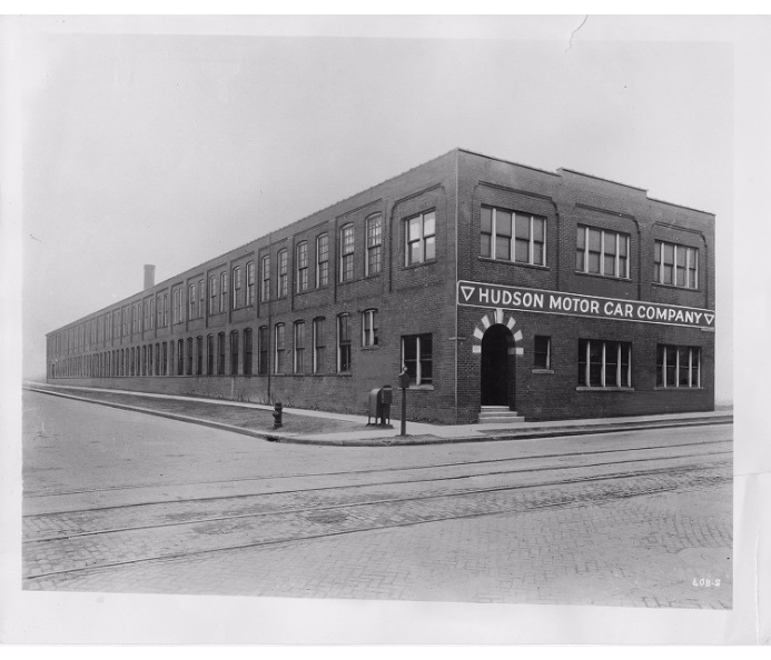 8x10 black and white photograph of the Hudson Motor Car factory located at the corner of Mack and Beaufait Avenues